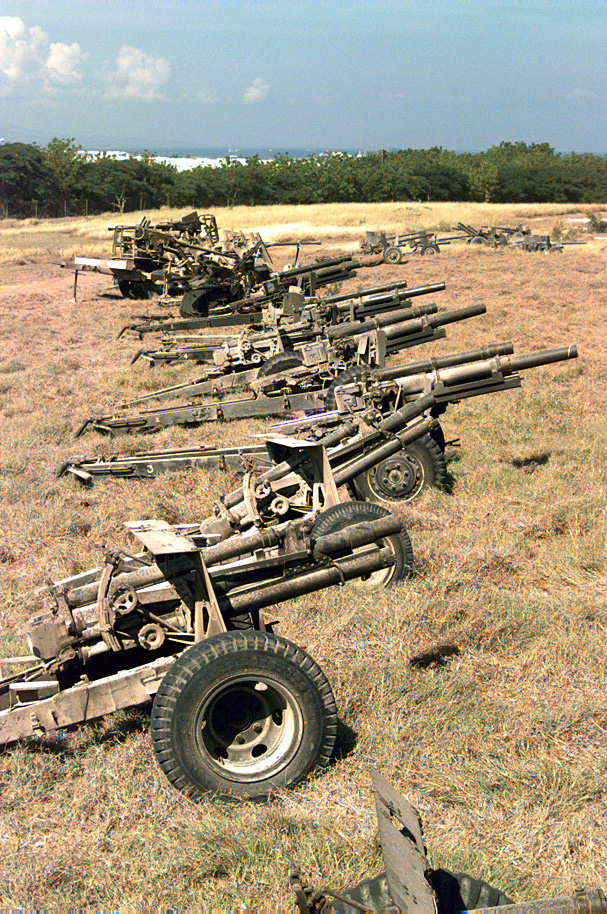 A line of 105 mm towed howitzer artillery which was confiscated by the U.S. from the Haitian Army waits at the Port-au-Prince Airport during Operation Uphold Democracy.